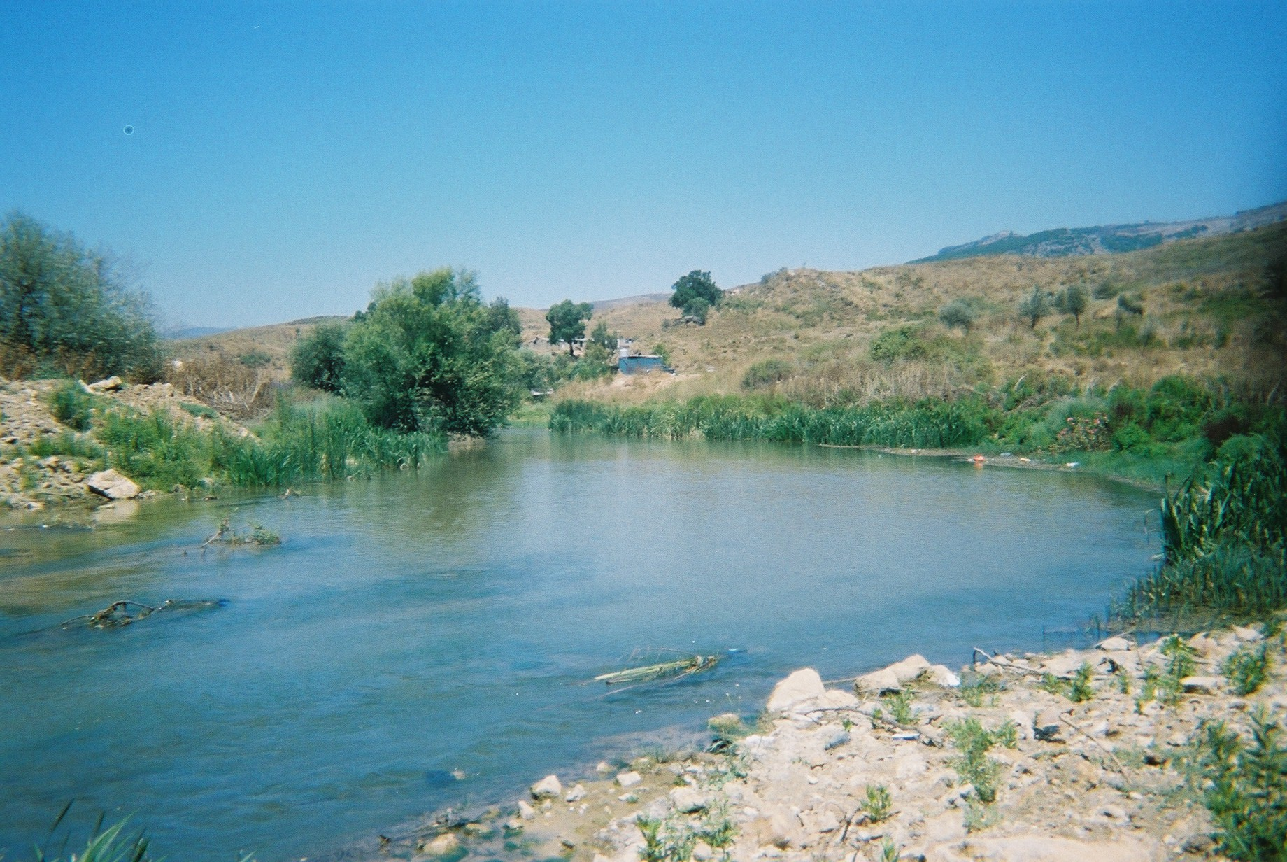 My own work, taken with temporary camera during visit to beautiful Lebanon. This picture shows the southern part of the Litani River, very close to the Israeli border and under a bridge which was destroyed by the IDF.